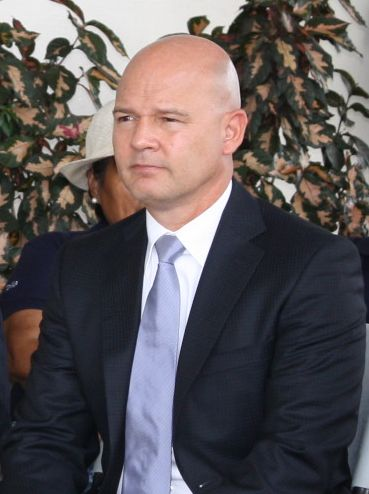 Lic. Gustavo Adolfo Perez De La Ossa, Commander National Police of Panamá